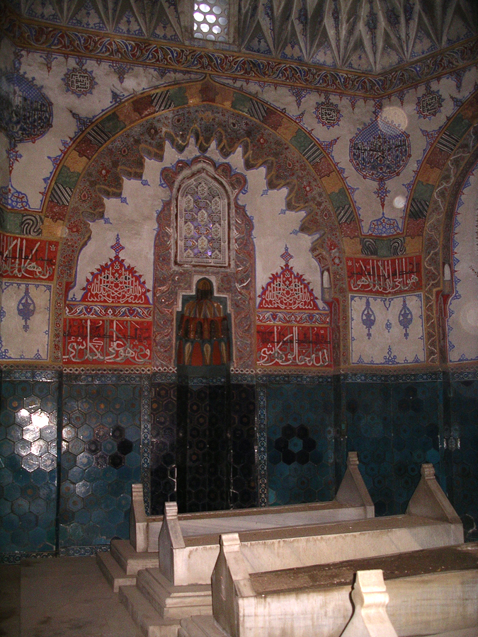 Inside Cem Sultan's tomb, the Sultans Mustafa and Cem, sons of Fatih Mehmet